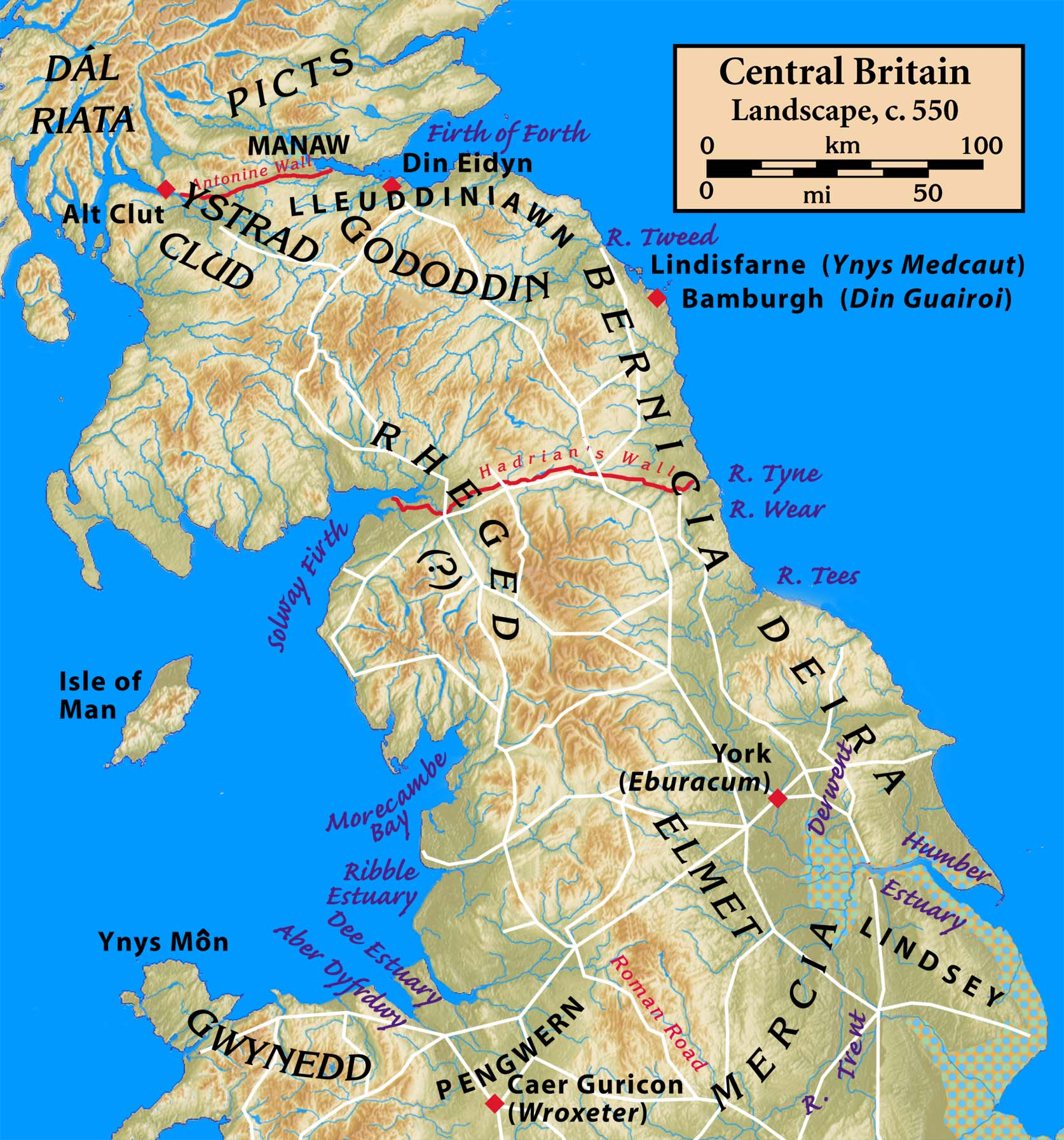 Central Britain, c. 550